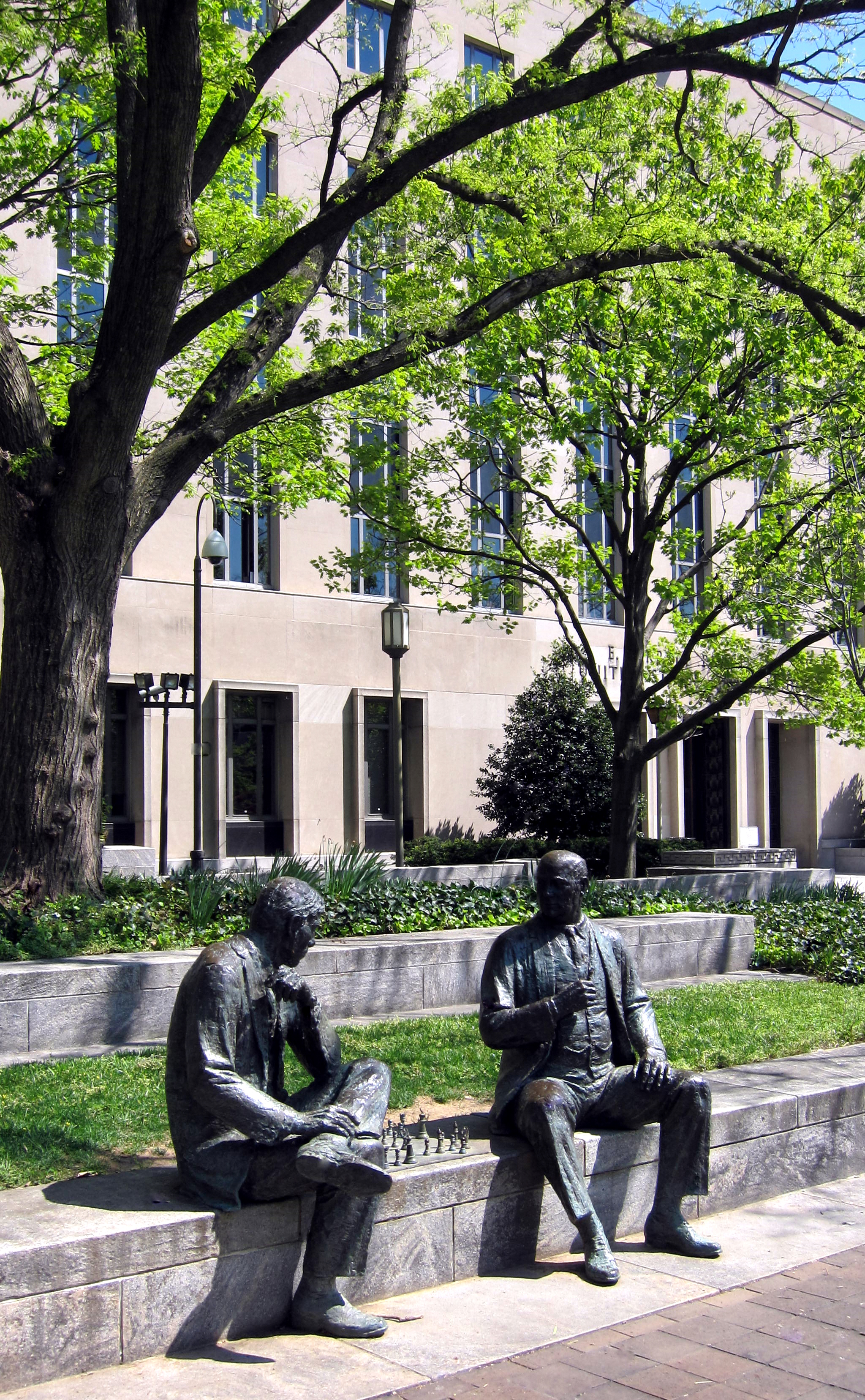 The Chess Players, a bronze sculpture by Lloyd Lillie, located in John Marshall Park in the Judiciary Square neighborhood of Washington, D.C. The E. Barrett Prettyman Federal Courthouse is in the background.